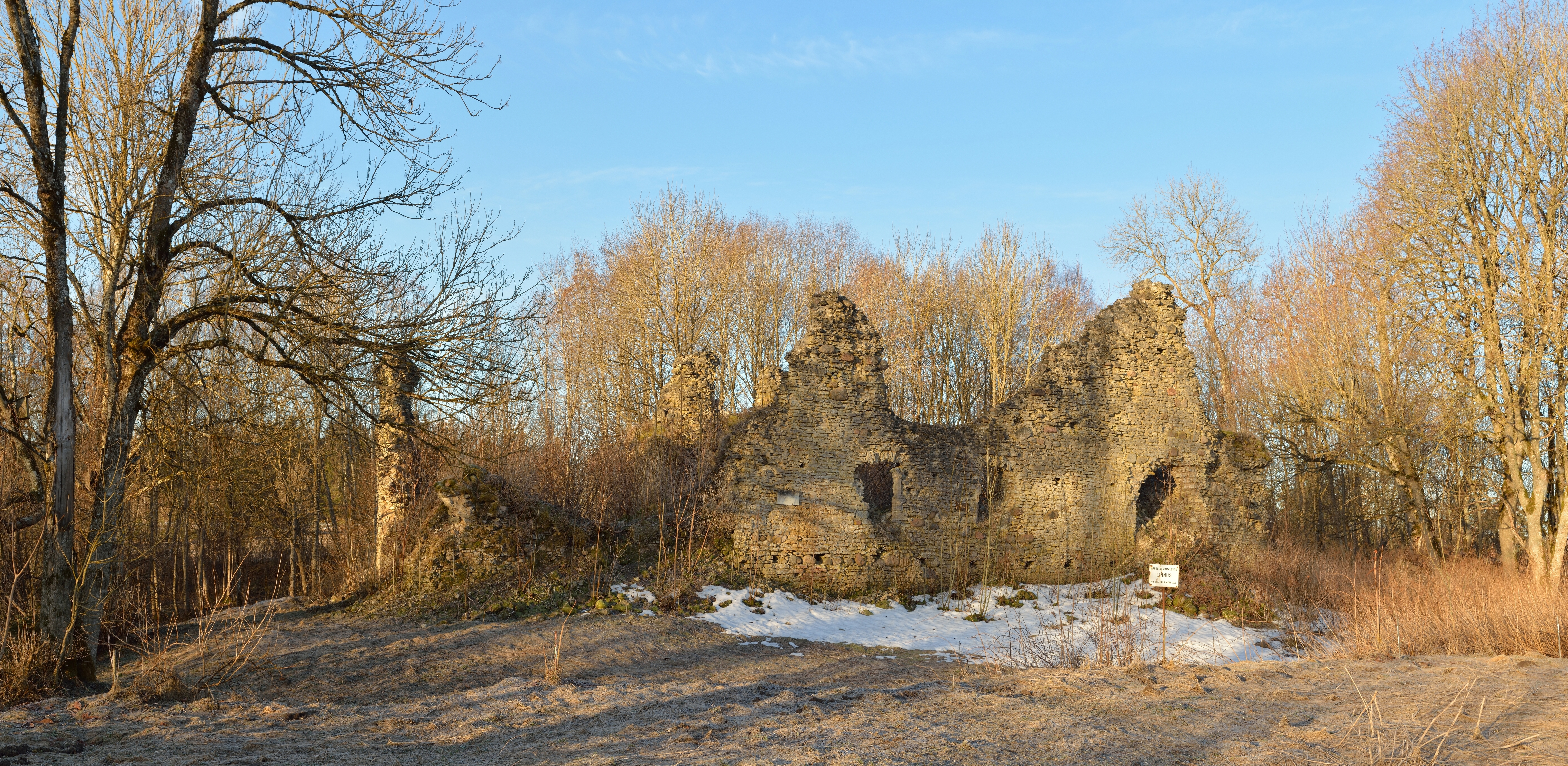 Ruins of Angerja castle